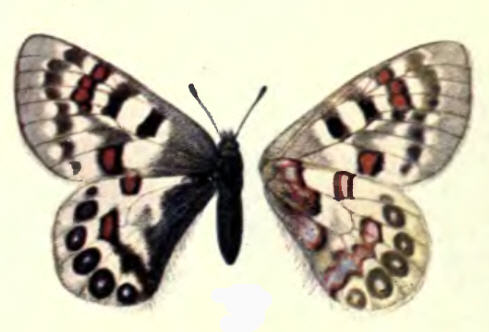 Parnassius hardwickei = Parnassius hardwickii Gray, 1831, upperwing (left) and underwing (right)